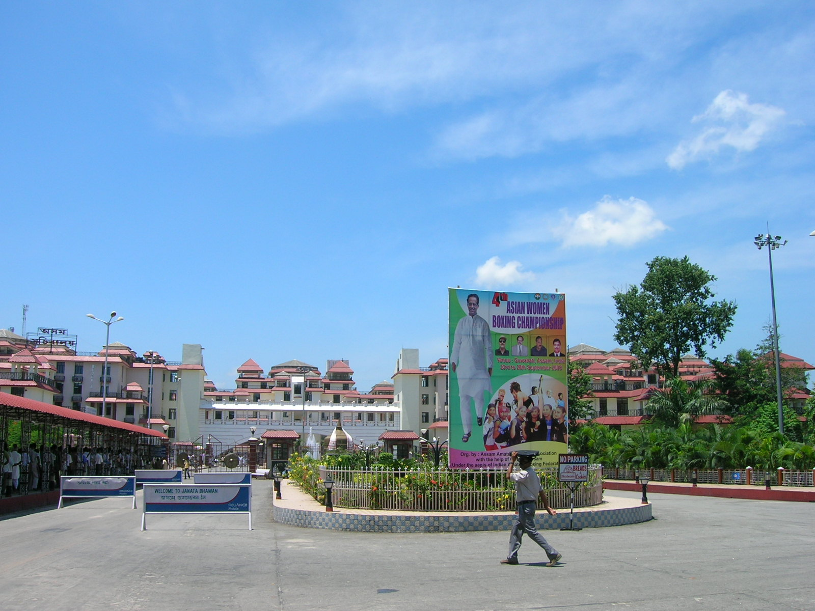 Photograph of Assam Secretariat building located at Dispur, Assam